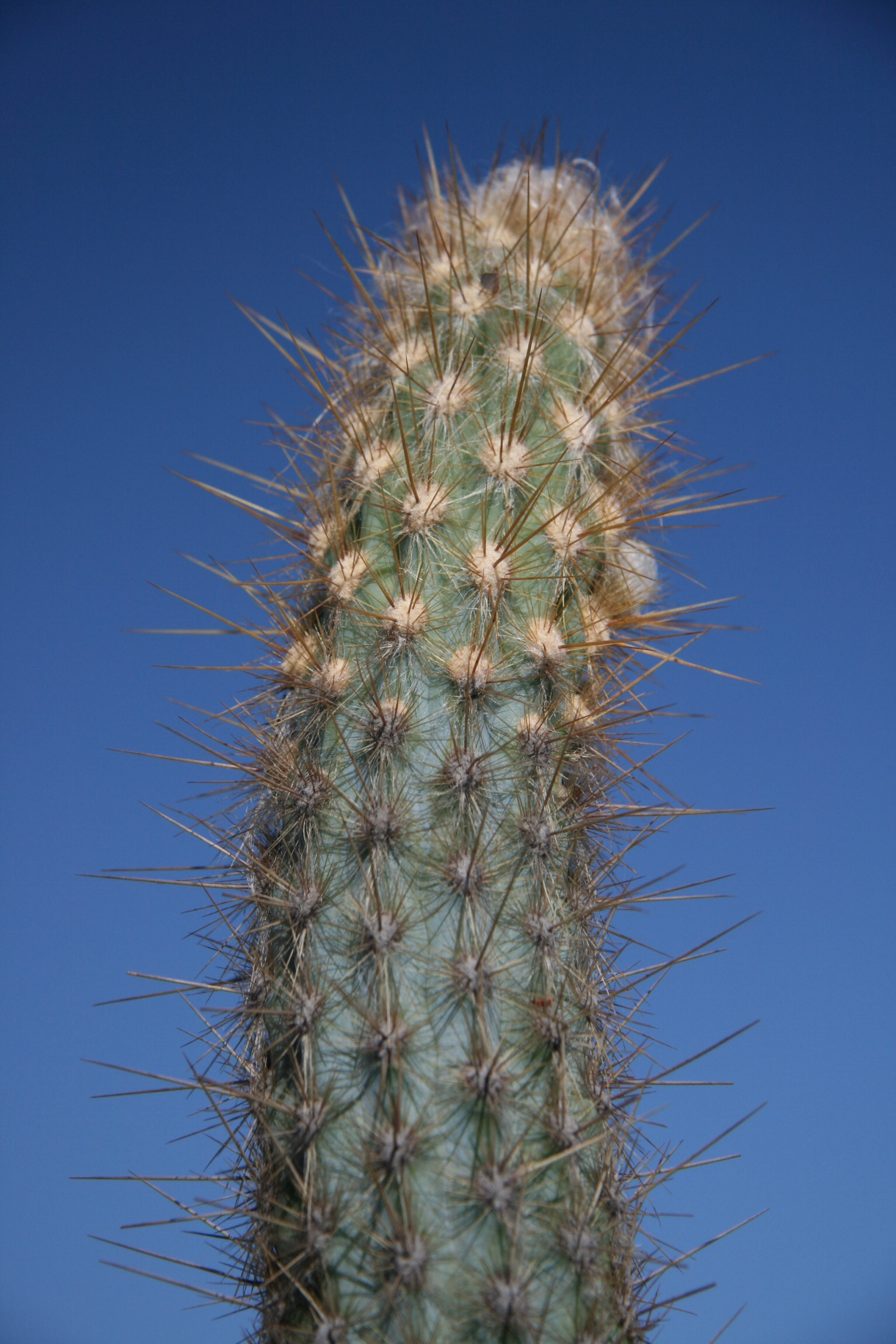 Top of adult stem, plant from type locality, N Bahia, Brasil